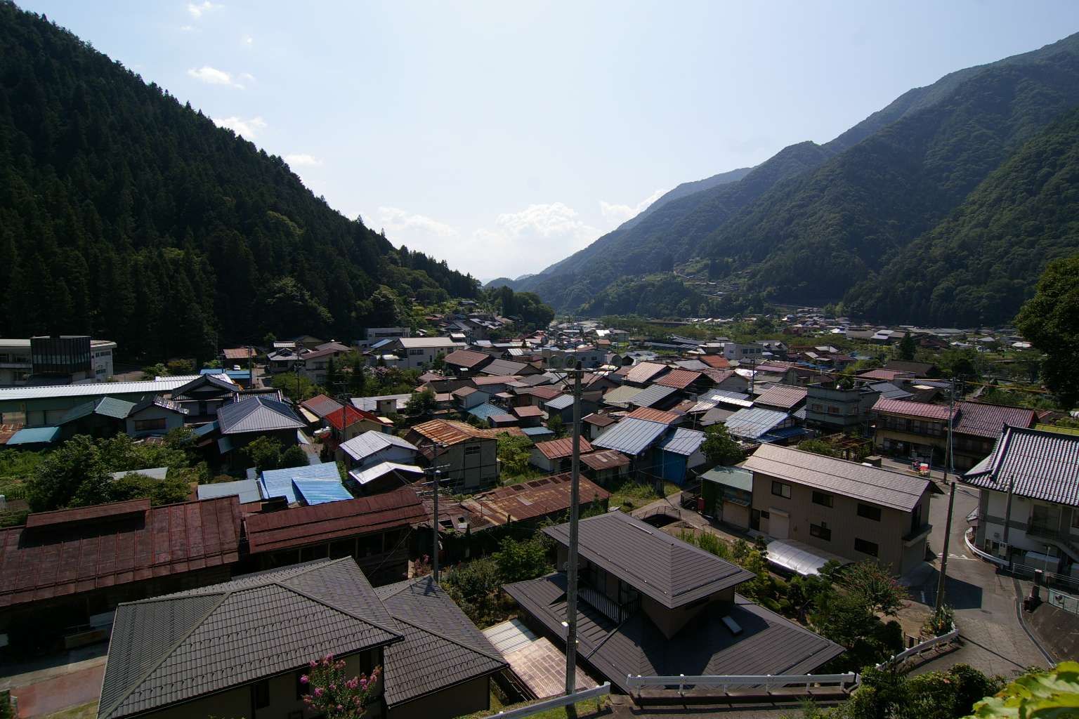 Toyama Kyodokan (South Shinano, Iida City, Nagano Pref., Japan)